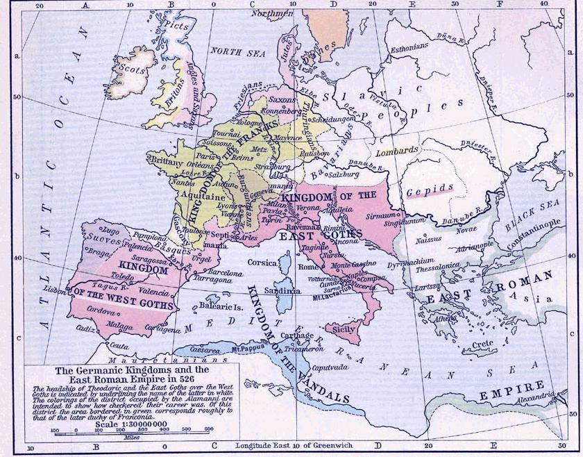 Germanic Kingdoms and East Roman Empire in 526 (public domain map)